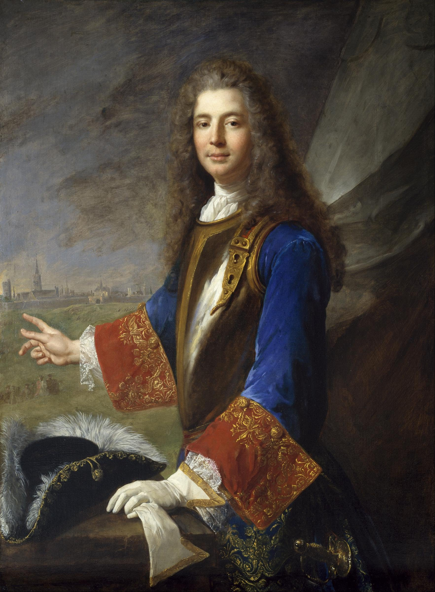 Charles Francois Marie de Custine, Chevalier de Wiltz (d.1738) Grand Ecuyer de Lorraine and Mestre-de-Camp (colonel) of the French regiment, "Stanislas-Roi," later known as the Royal-Pologne Regiment.